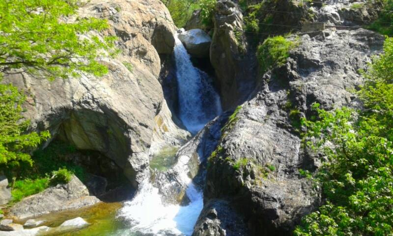 Suchurum Waterfall, Bulgaria